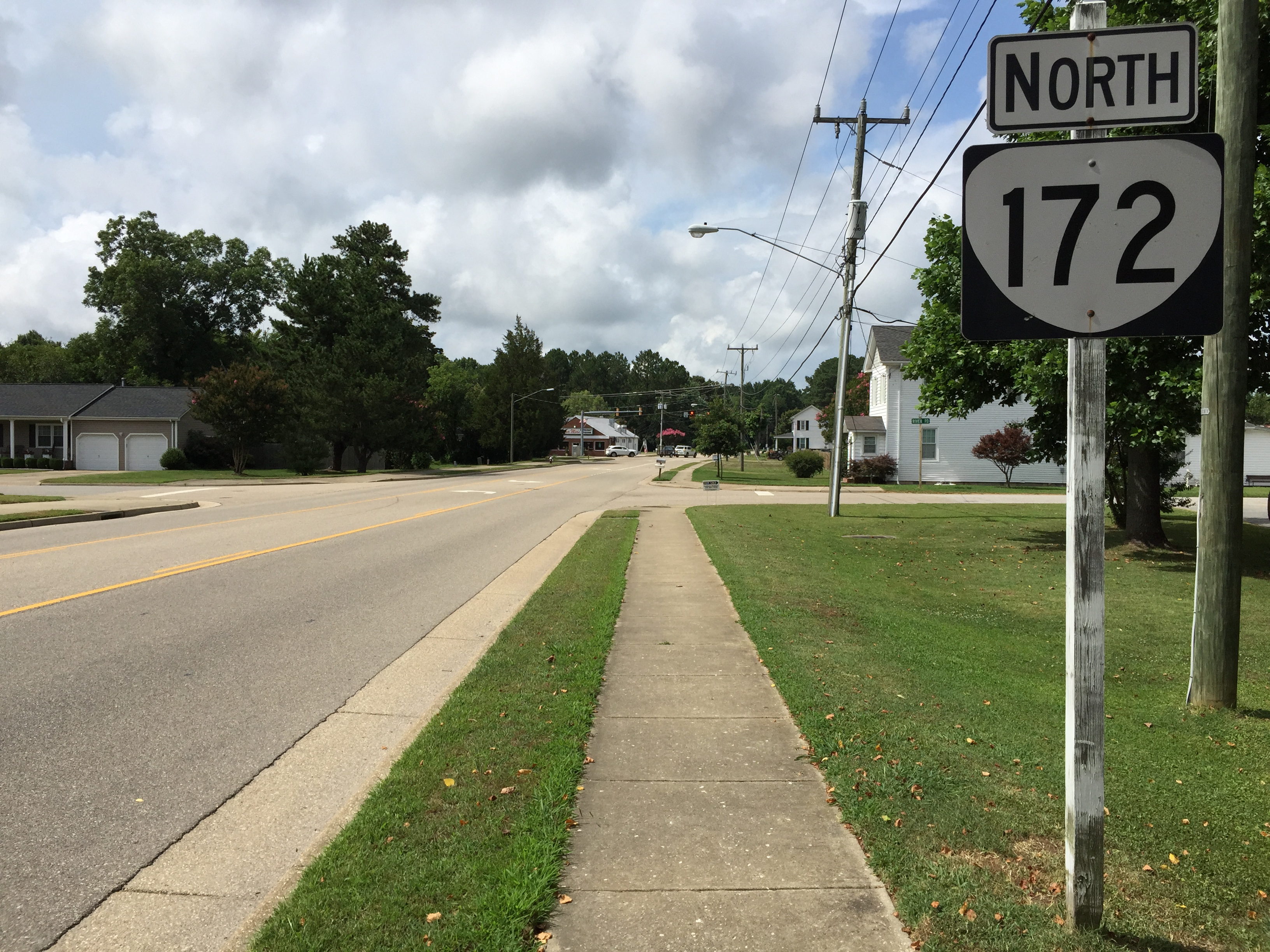 View north along Virginia State Route 172 (Yorktown Road) between Poquoson Avenue and River Road in Poquoson, Virginia